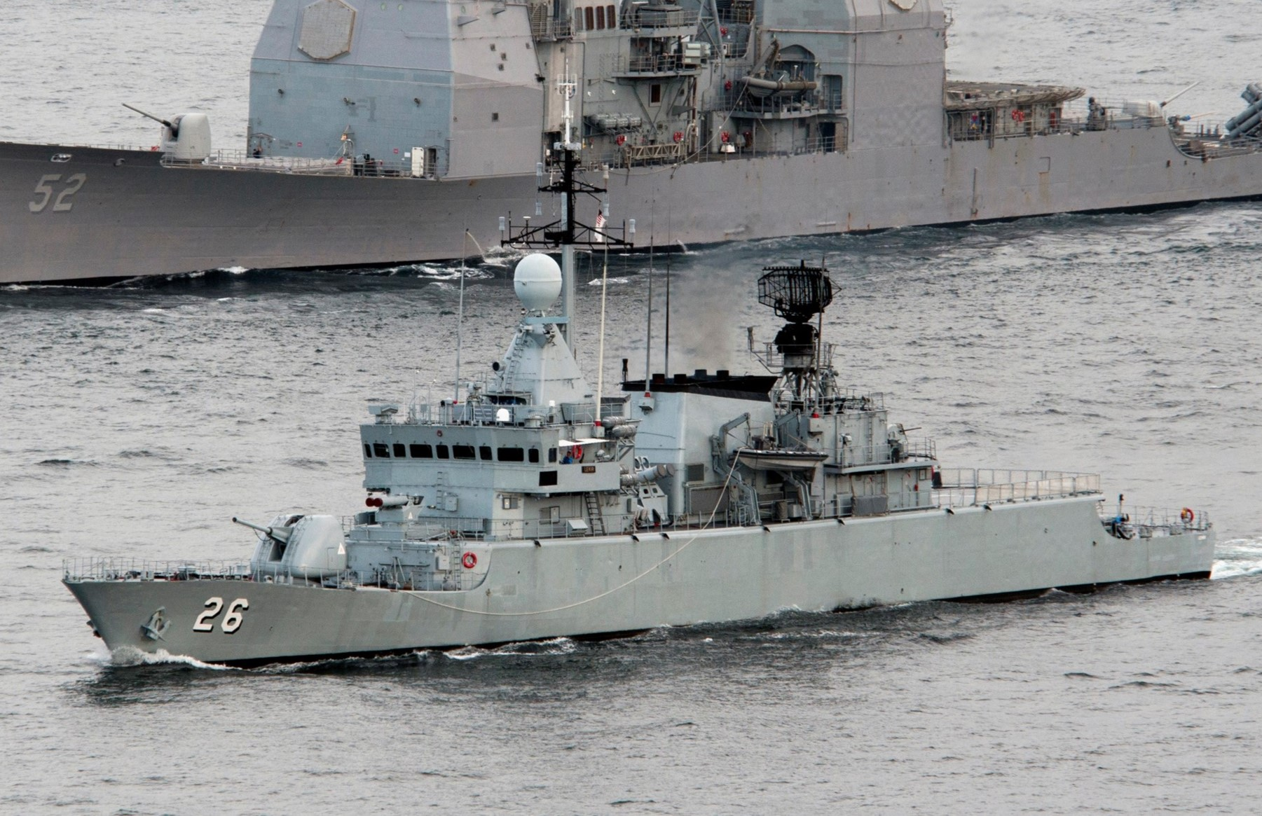 STRAIT OF MALACCA (Jan. 26, 2011) The Royal Malaysian Navy frigate KD Lekir (FF 26) leads the Ticonderoga-class guided missile cruiser USS Bunker Hill (CG-52) during a passing exercise. Carl Vinson and Carrier Air Wing 17 are underway on a deployment to the U.S. 7th Fleet area of responsibility. (U.S. Navy photo by Mass Communication Specialist 2nd Class James R. Evans/Released)